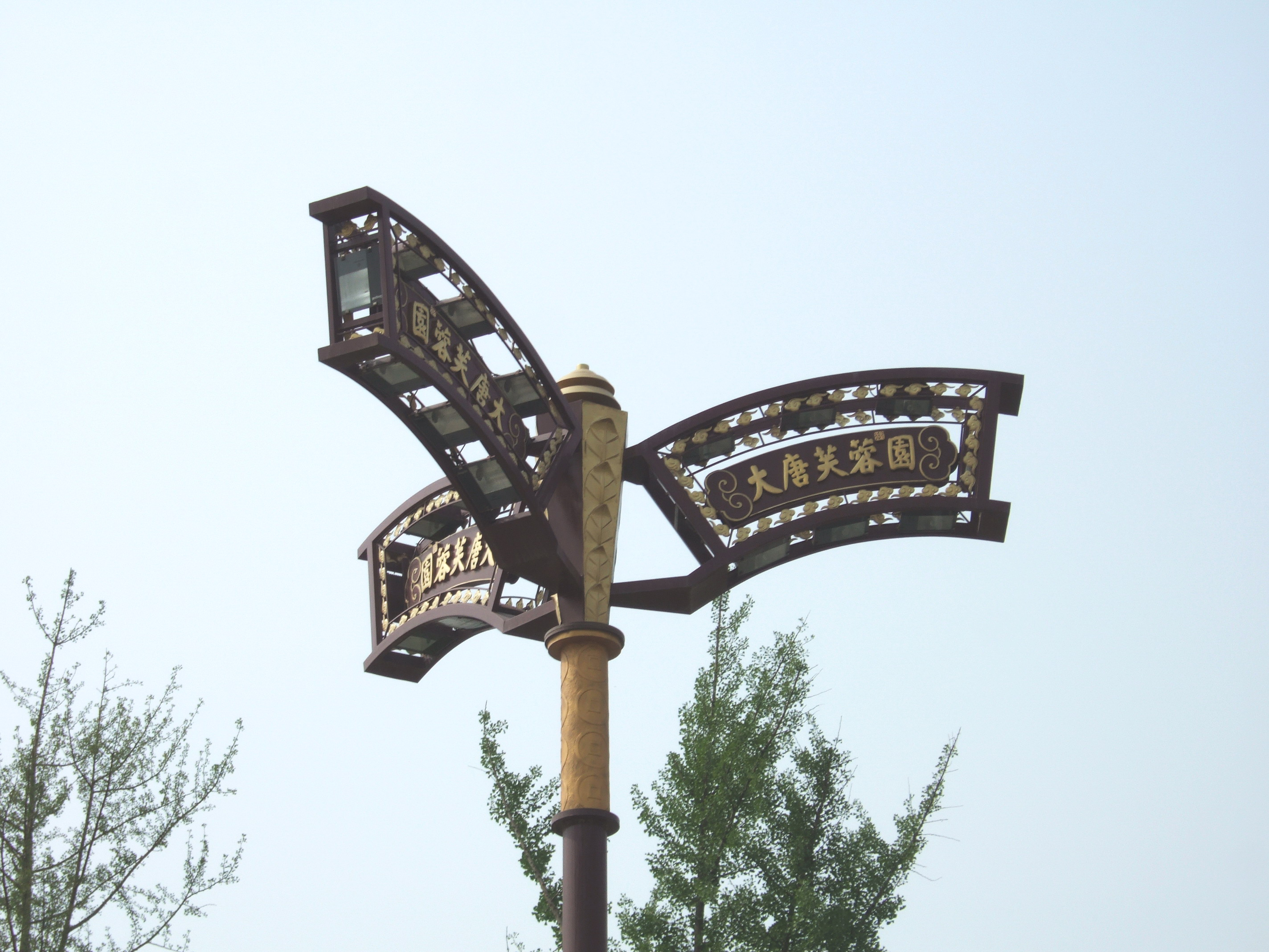 A symbolic pole near the gate of the Tang Paradise (大唐芙蓉园) in Xi'an, China.